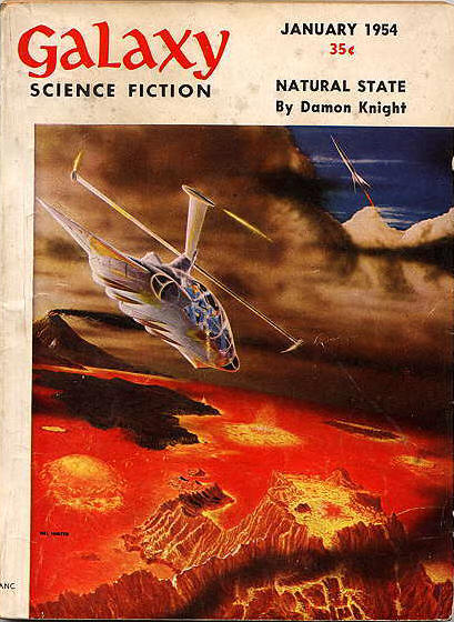 Cover of Galaxy, January 1954